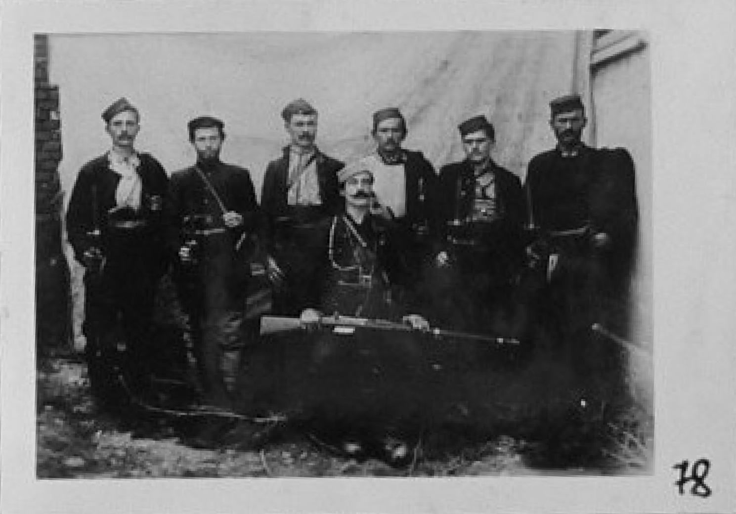 Dimko Bogov's IMARO Band.